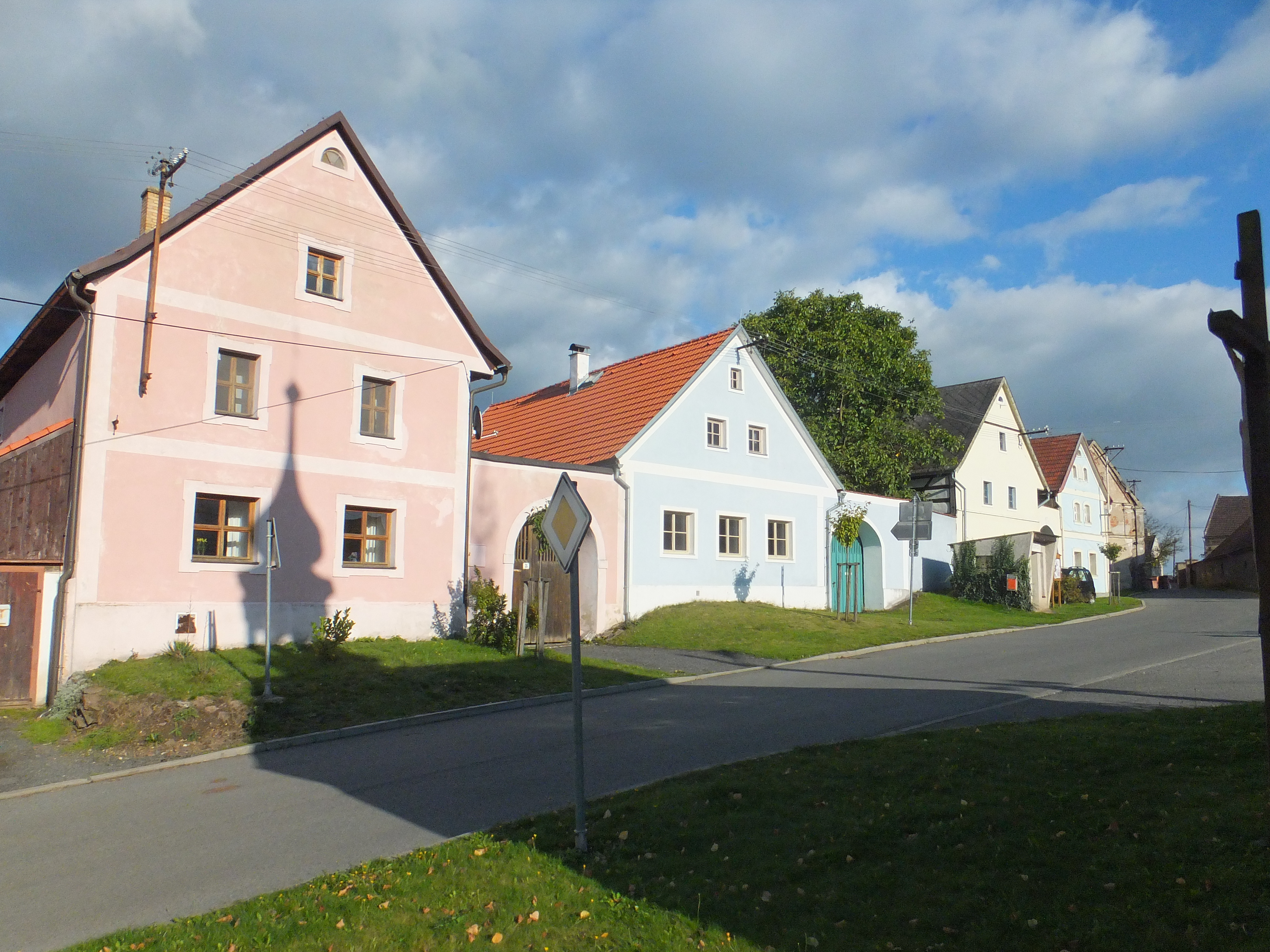 The north-eastern side of the square in Olešovice